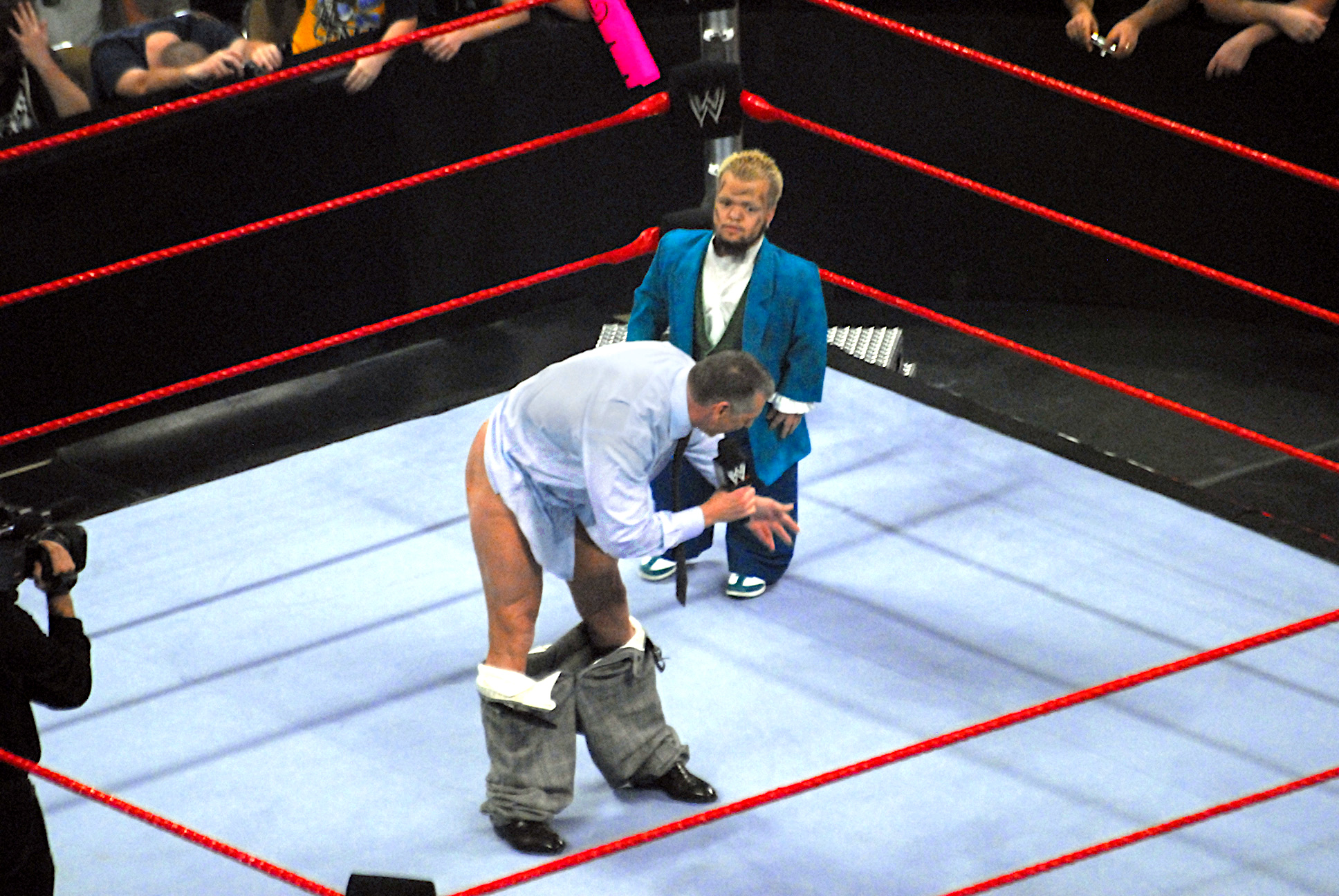 McMahon administering some "tough love" to his bastard son, Hornswoggle.